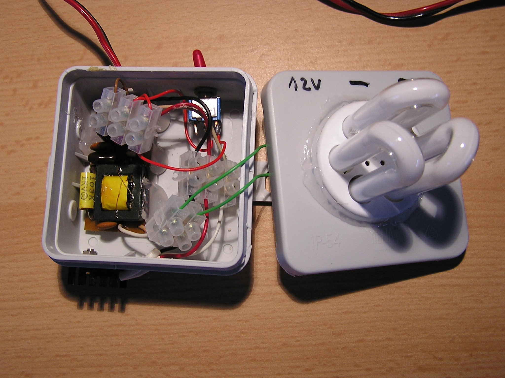 Self-made lamp (opened). It consists of an electronical ballast for 12 Volts direct current from a lead-acid battery and a tube taken from a compact fluorescent lamp. The following main units of the ballast can be seen: PCB with transformer (left) and transistor (bottom, on heat sink).